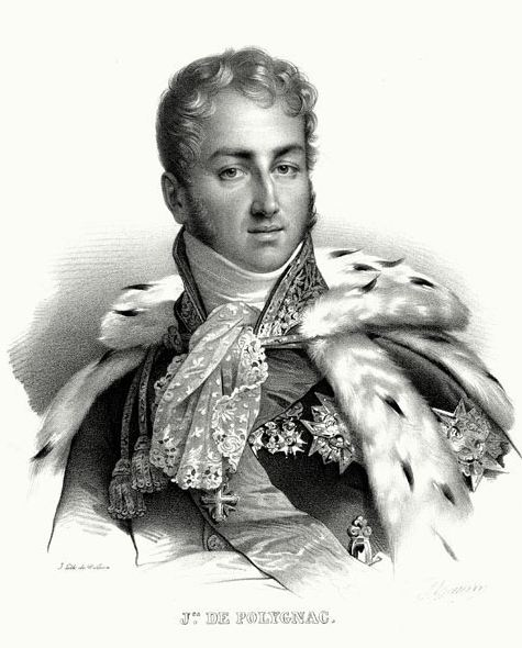 Jules Auguste Armand Marie, Prince de Polignac (1780–1847), Prime Minister to Charles X of France